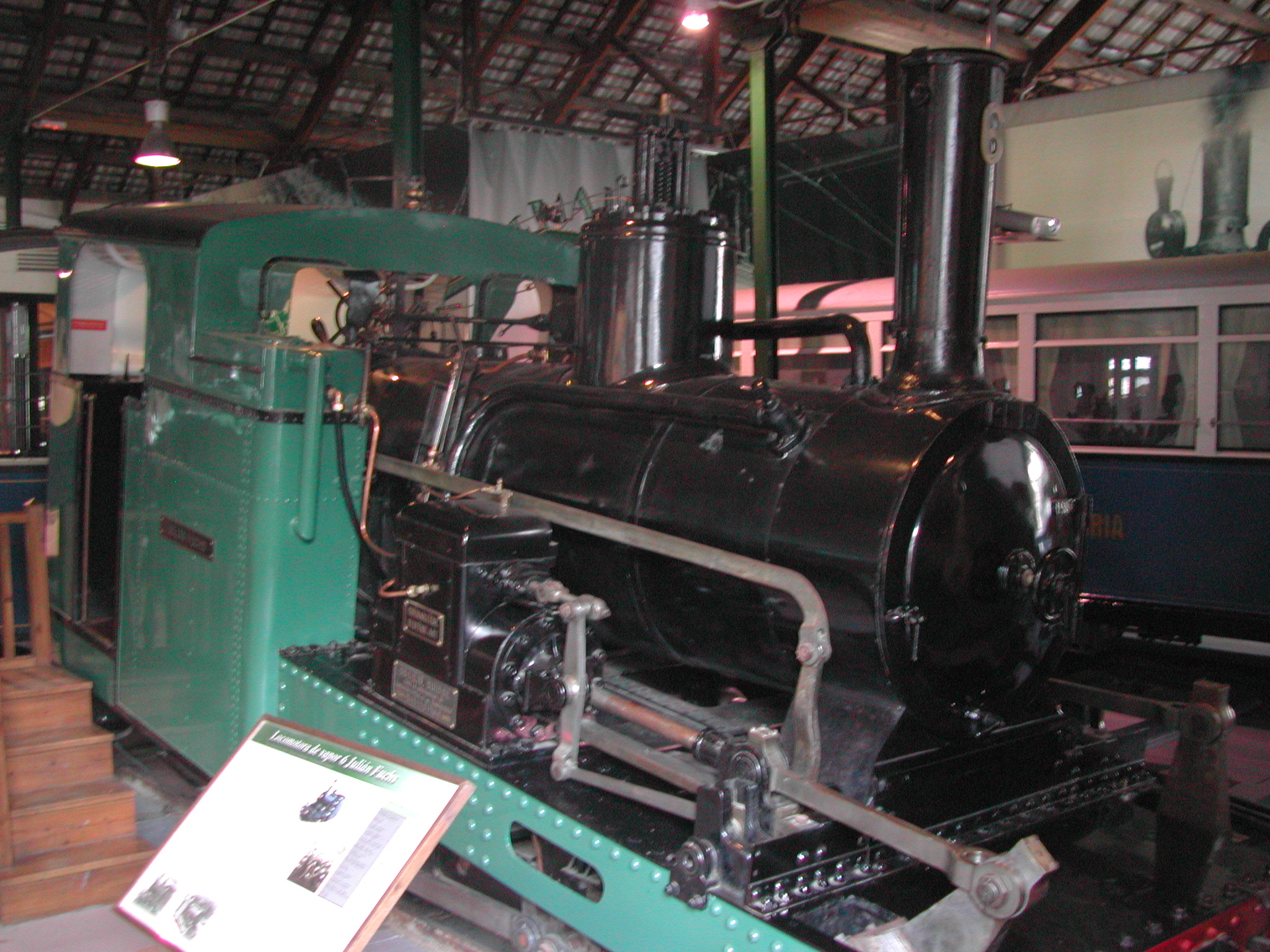 Steam locomotive 6 of Montserrat cog railway, built SLM 748/1892 for Gornergratbahn #8